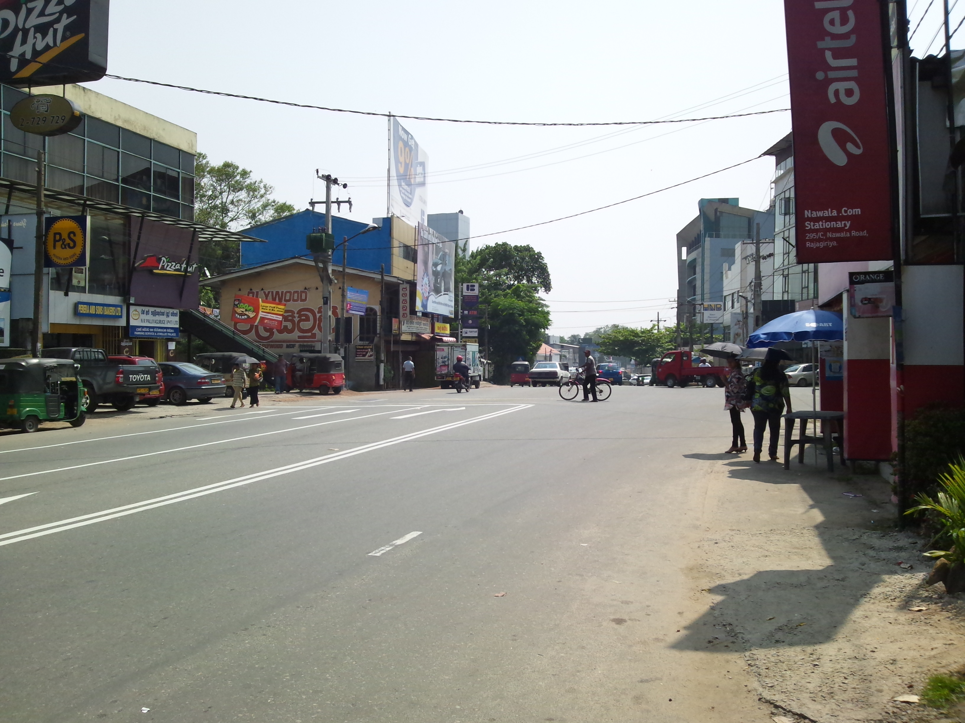 Nawala junction.